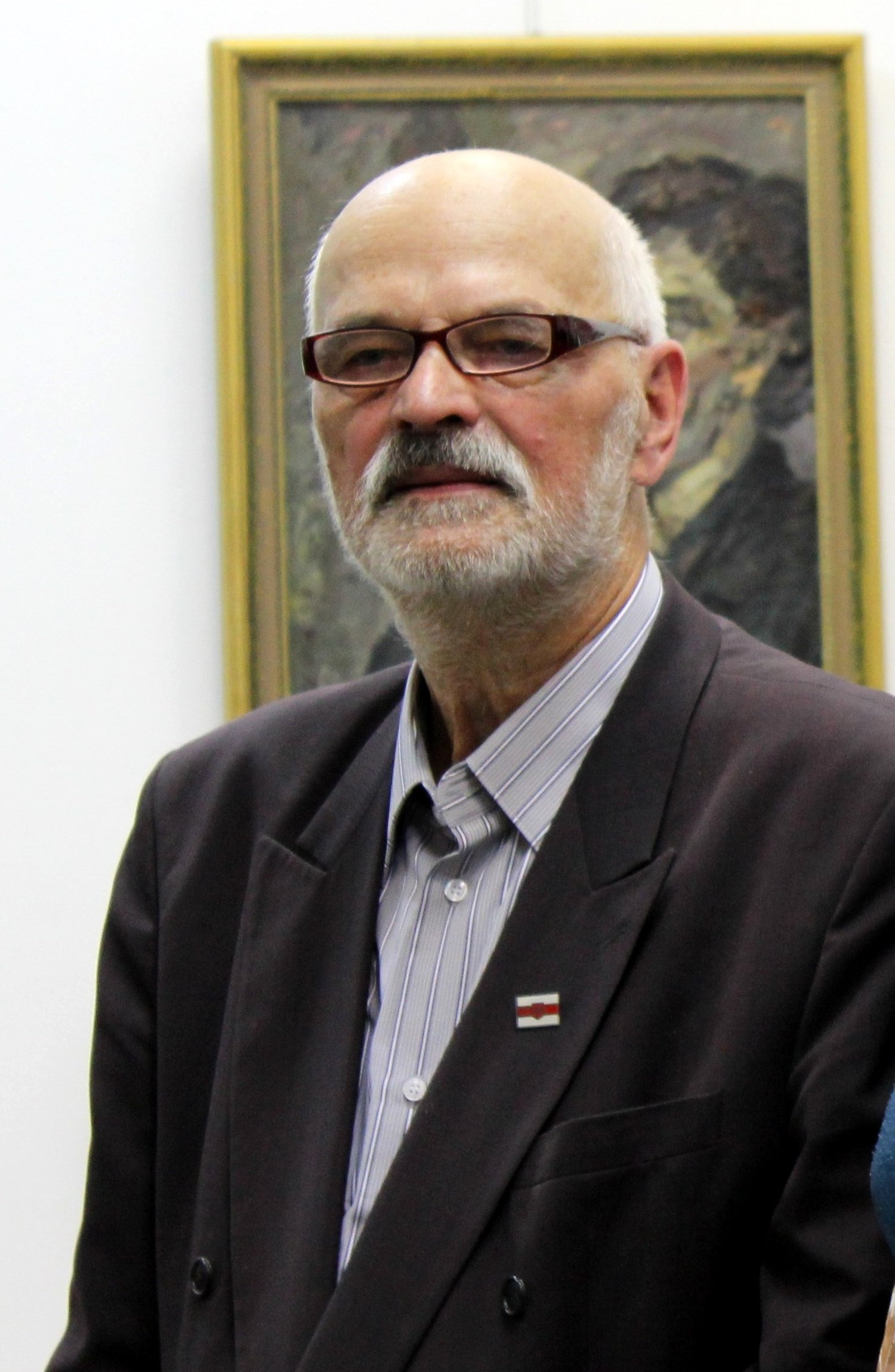 The Belarusian artist Alexey Marochkin during opening of exhibition of painting in Mastatstva art gallery, Minsk, on November 22, 2013